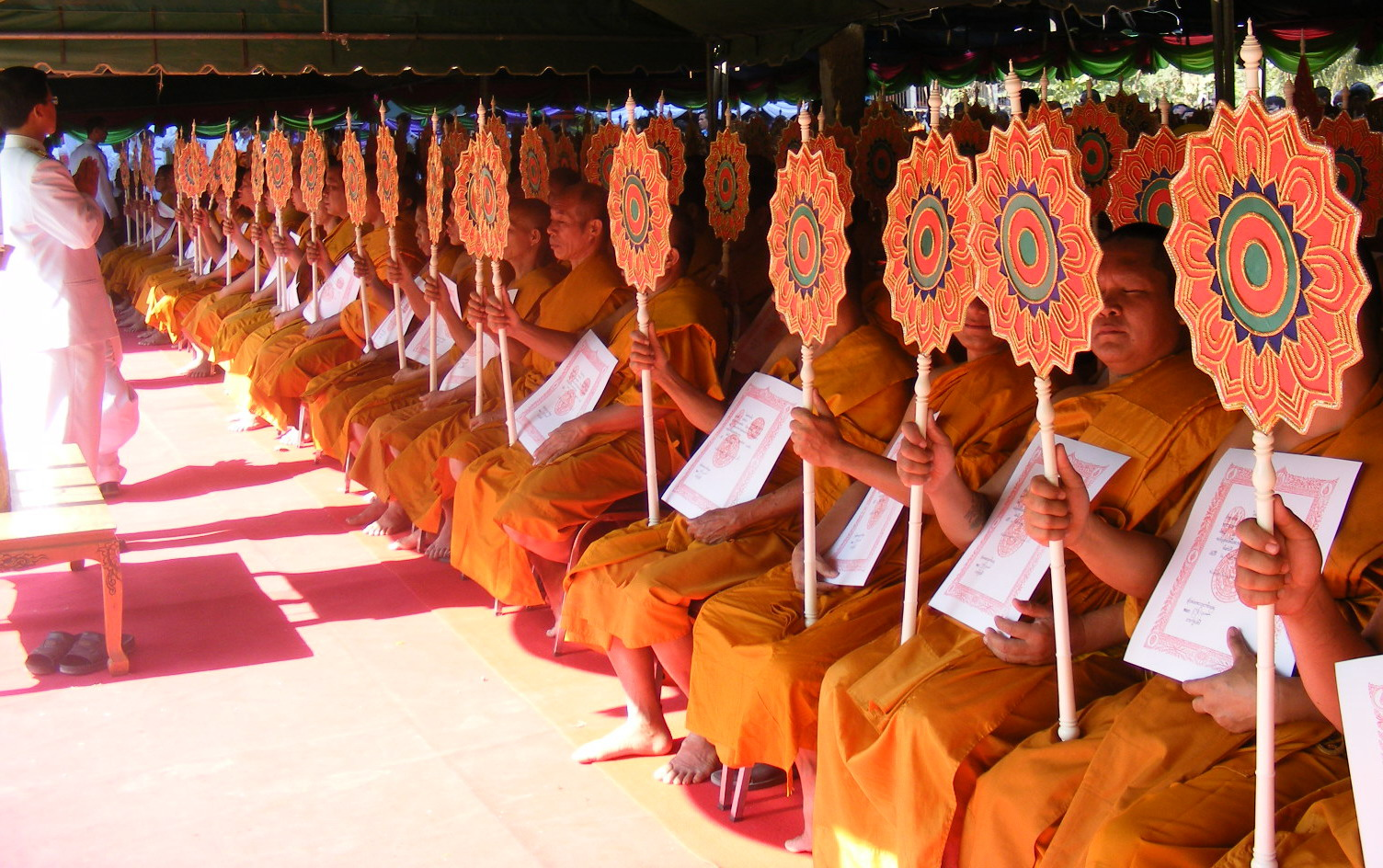 The Buddhist priest blesses to give a king by use the fan of rank of oneself.Wat Nong Wong, Amphoe Sawankhalok, Sukhothai, Thailand.